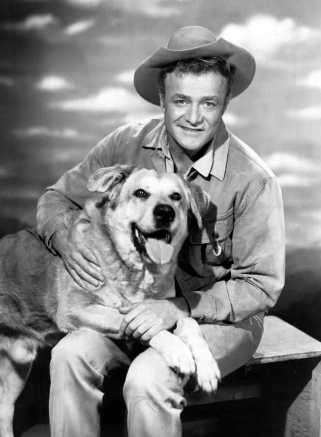 Photo of Brian Keith from the very short-lived television program The Westerner.